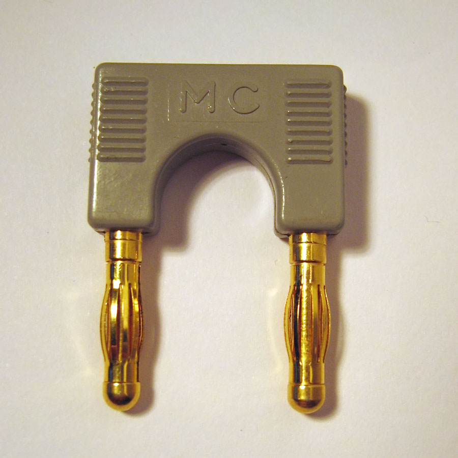 Photo of a shorting plug with gold-plated contacts